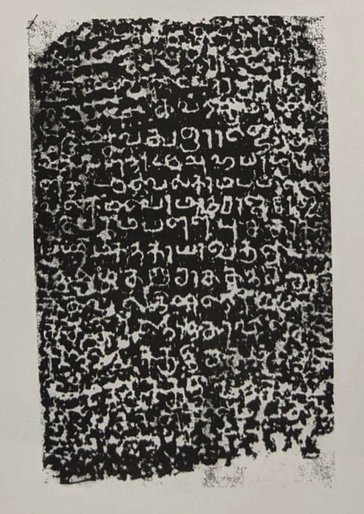 Velgam Vihara Tamil inscription, 11th century AD